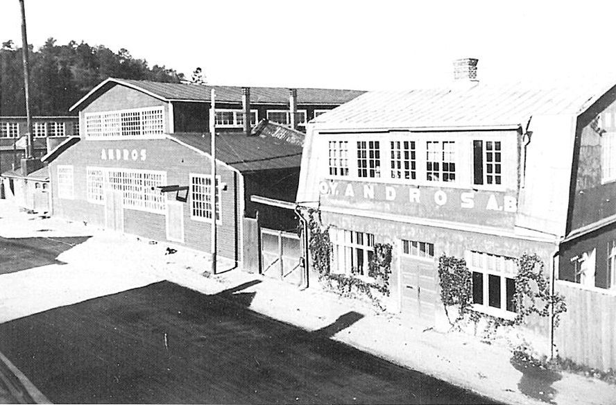 Andros (André & Rosenqvist) workshop buildings in turku, Finland.